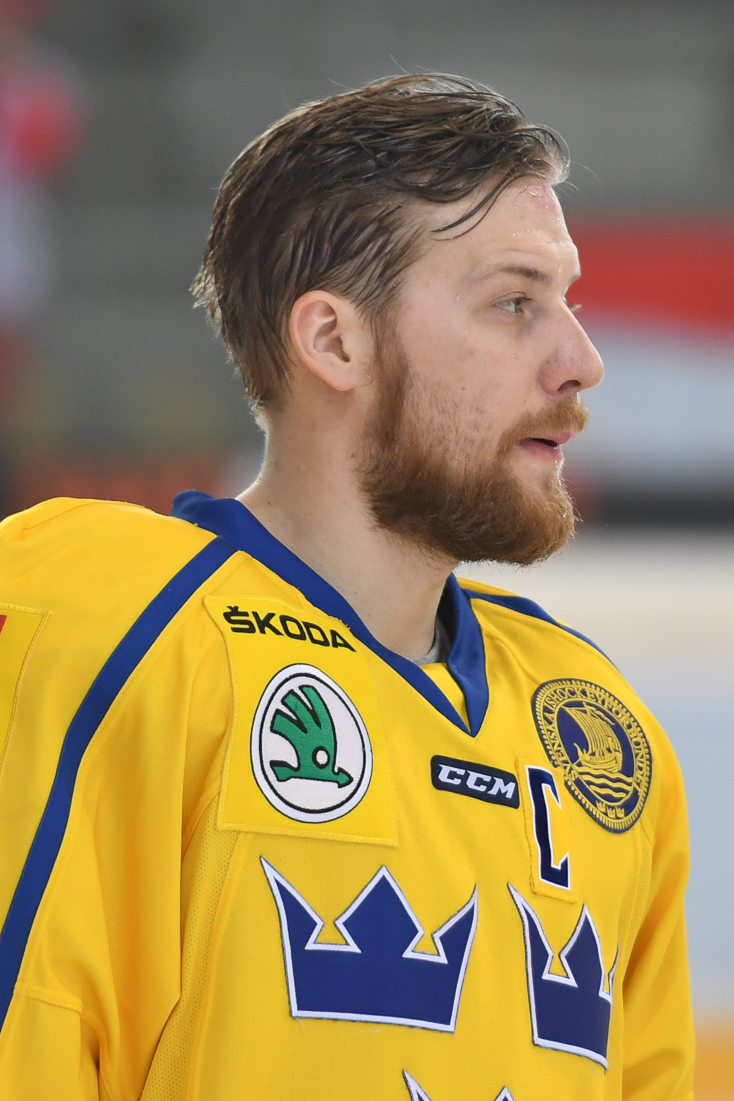 6/4/2017, Vienna, Austria, Sport, Ice Hockey, Friendly match Austria vs Sweden.